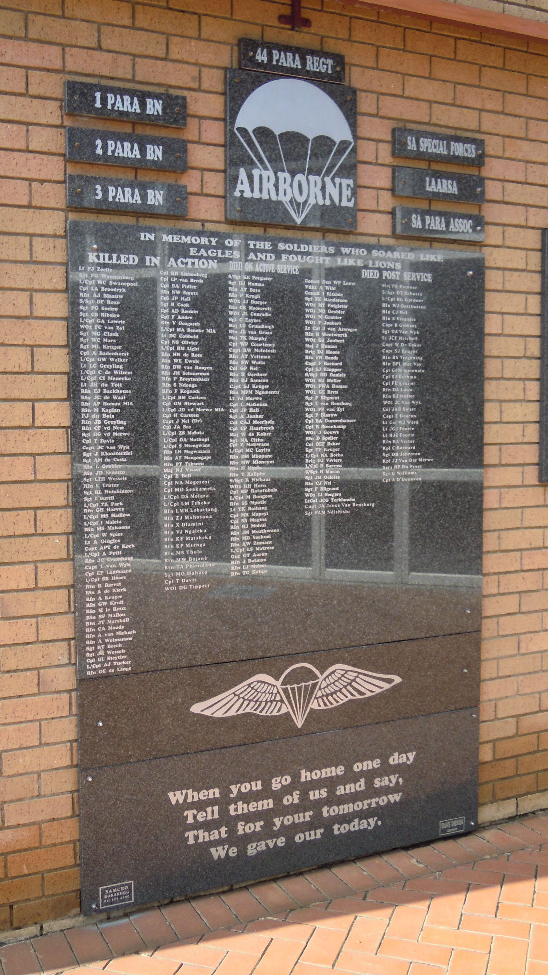 Johannesburg war museum memorial to parabats killed